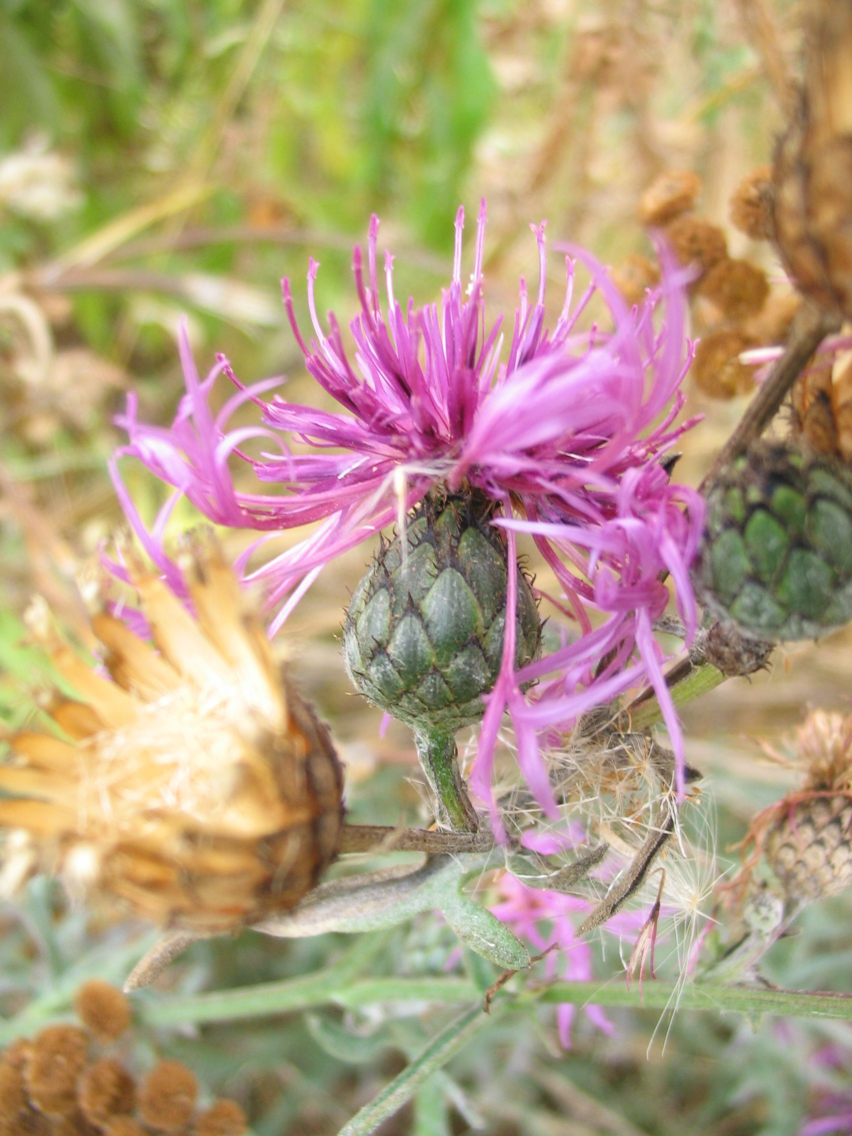 Picture taken by myself of the infloresence of Centaurea sadleriana, on a meadow with sandy soil on the Avas hill, Miskolc, Hungary. Date: 2006.10.21.